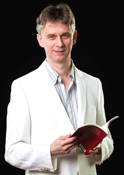 Portrait of the Austrian writer Klaus Ebner. Vienna 2011. The photo has been taken in accordance with the writer, and he asked and approved to publish the photograph to Wikipedia Commons for free use.